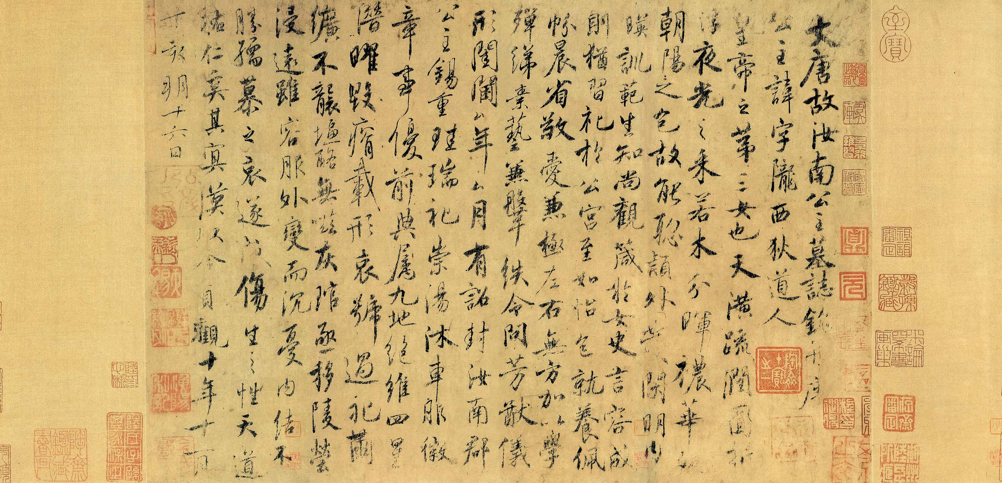 Yu Shi-Nan Calligraphy